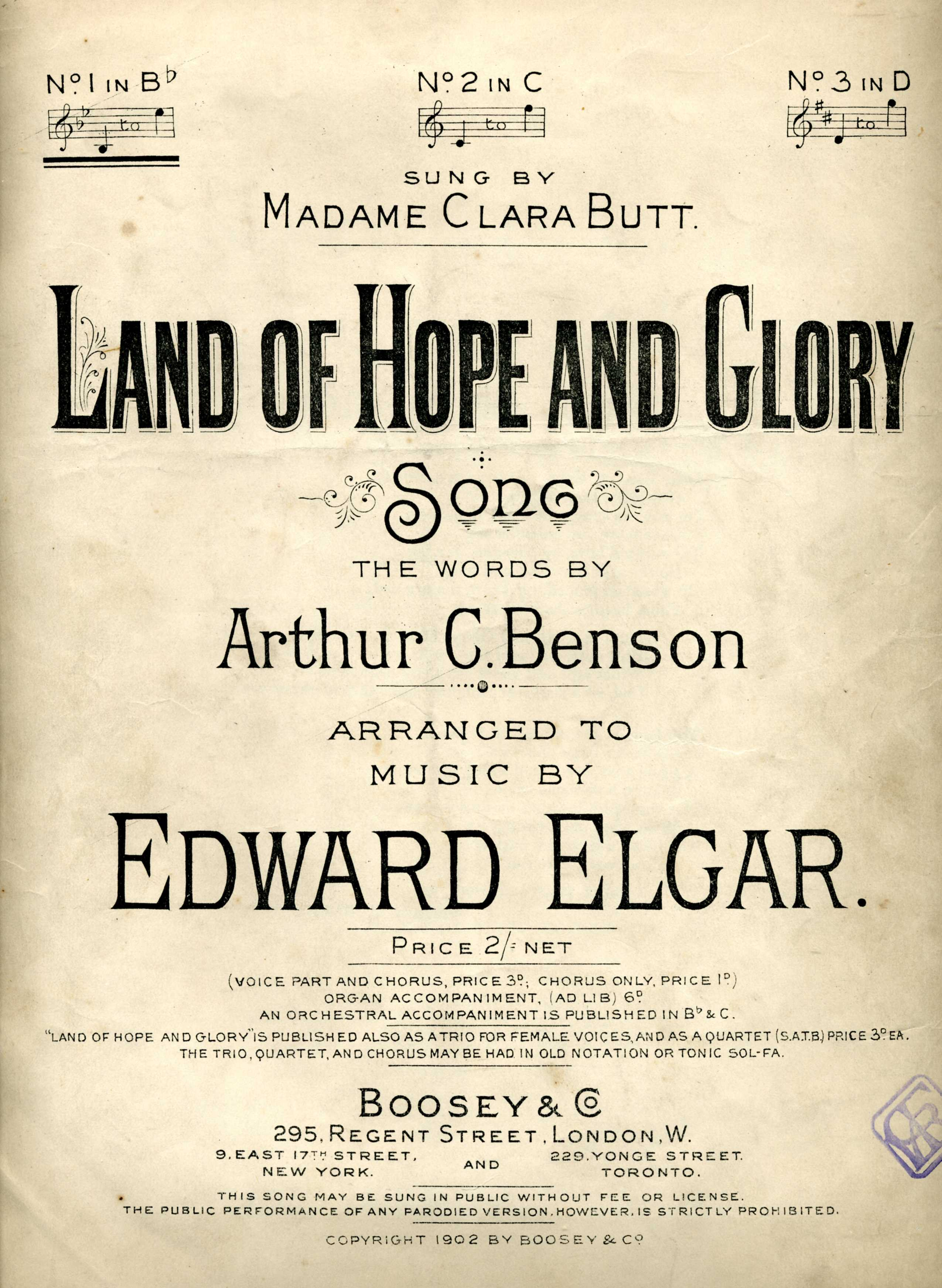 Cover of the song "Land of Hope and Glory" published by Boosey & Co. 1902